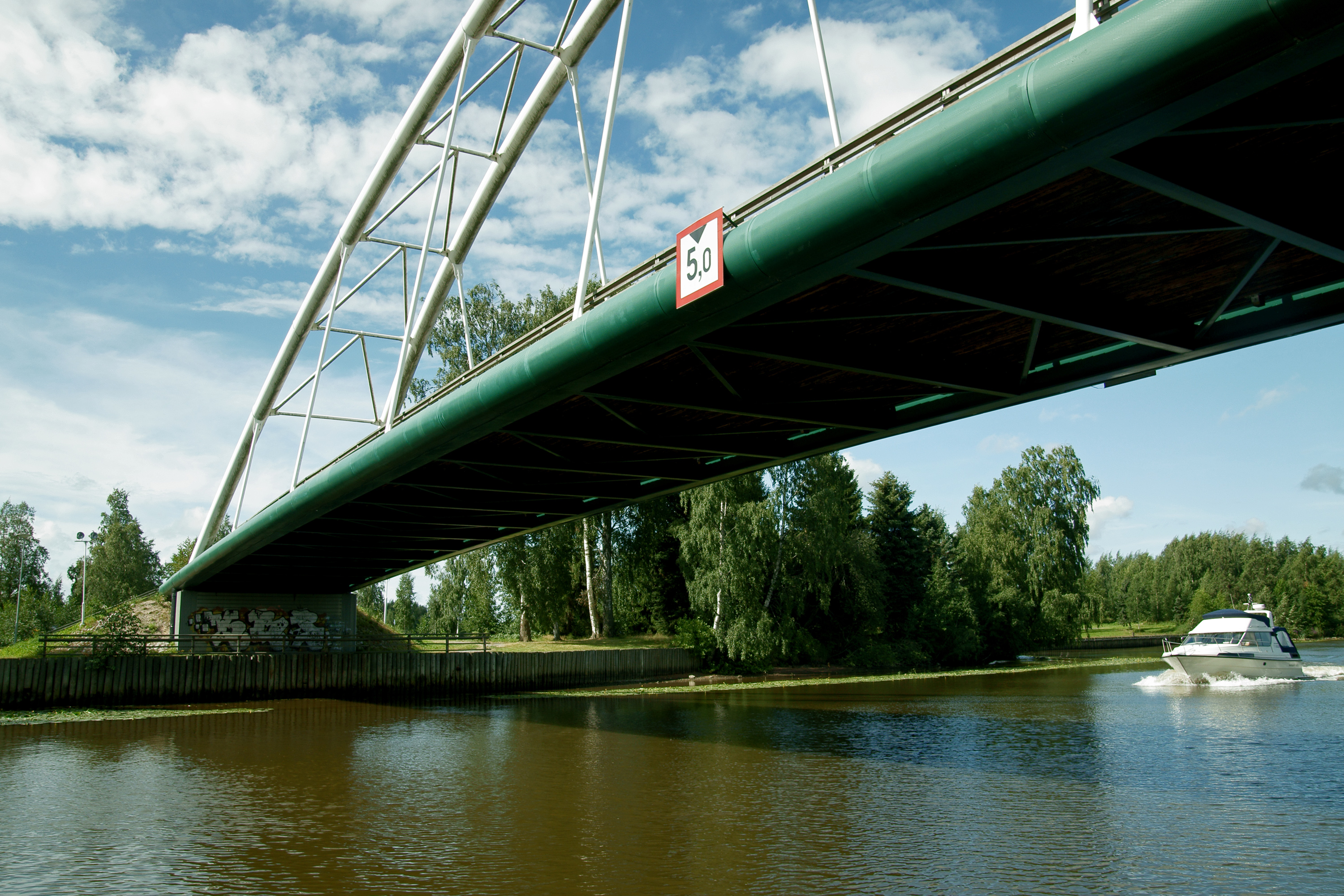 The bridge of Pormestarinluoto in Pori, Finland.